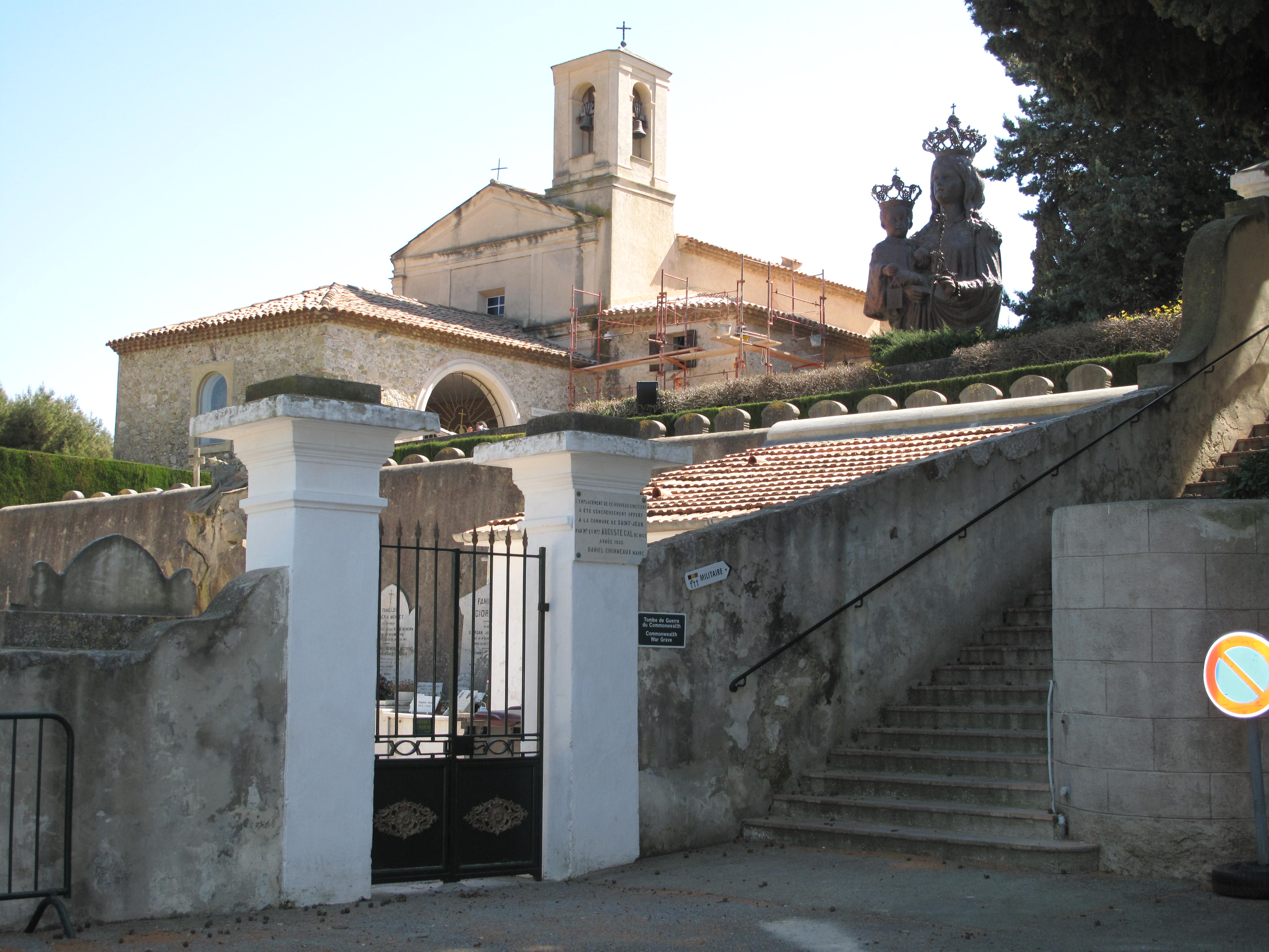 Chapel Saint-Hospice in Saint-Jean Cap-Ferrat, France